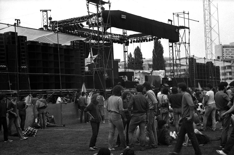 Dire Straits, 12th July 1983, Stadion Kranjčevićeva, Zagreb